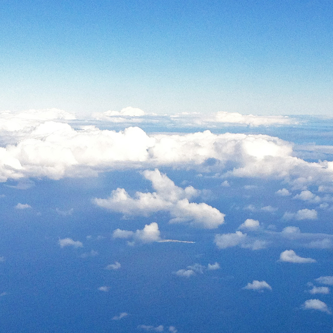 Sombrero Island, part of Anguilla